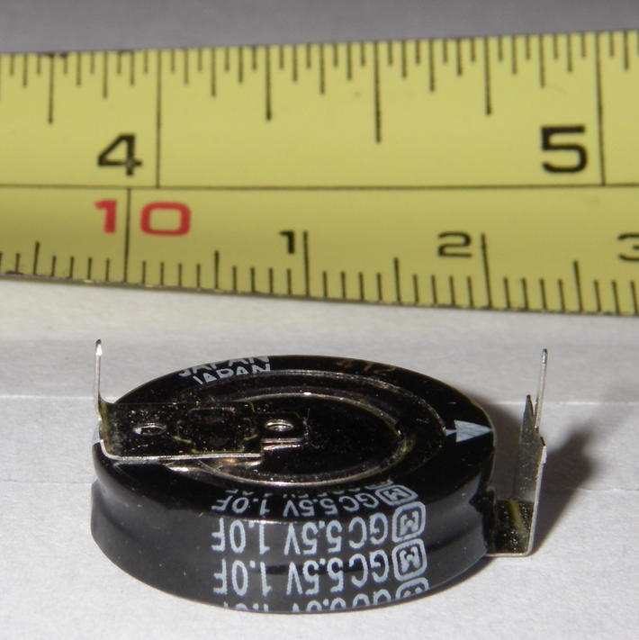 This is a picture of a 1 Farad, 5.5V electrolytic capacitor. An inch/centimeter scale is in the background